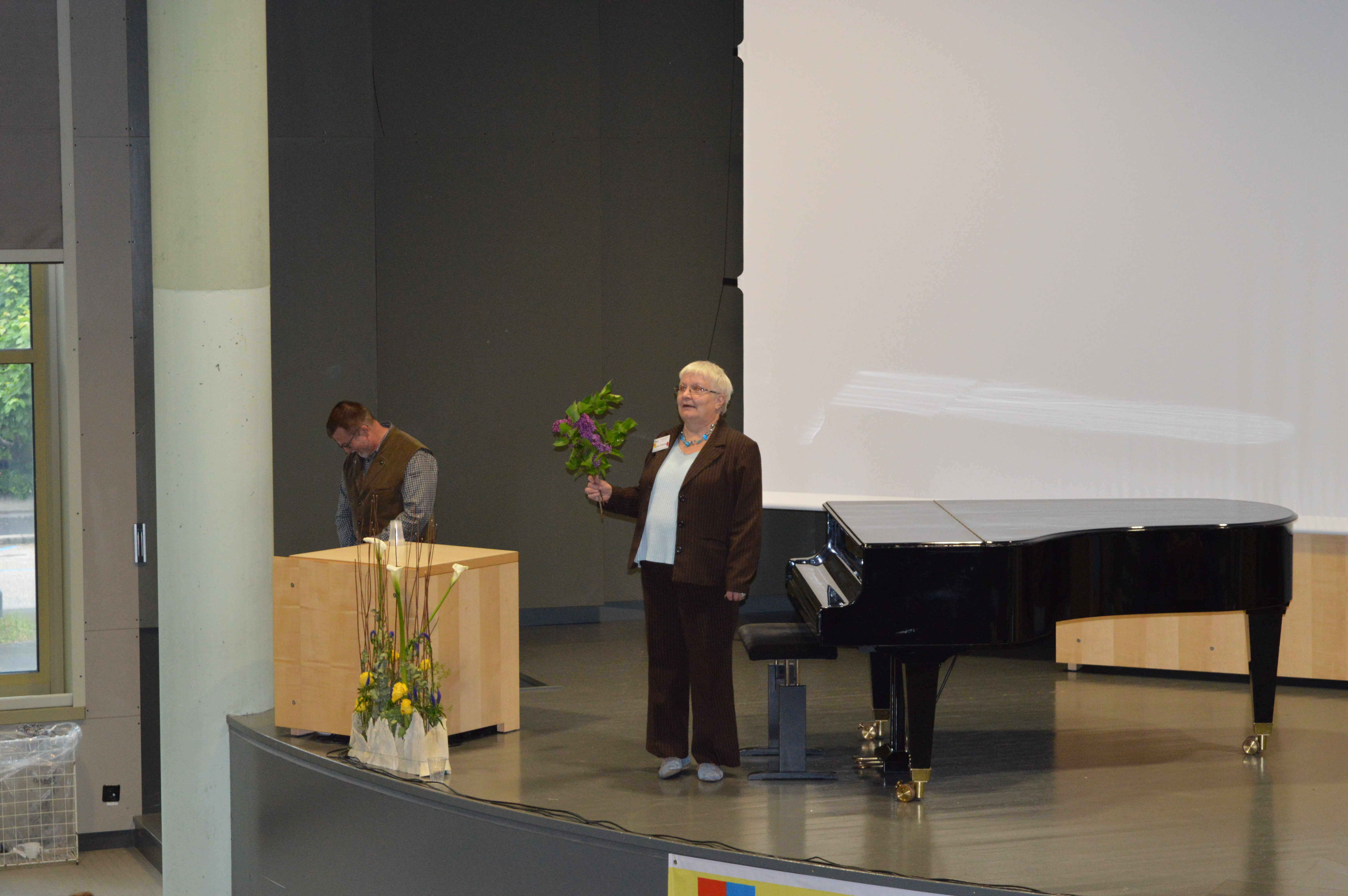 Mireille Grosjean get's birthday flowers at the third international conference on Esperanto teachting, canton of Neuchatel, SwitzerlandEsperanto: Mireille Grosjean ricevas naskiĝtagajn florojn dum la tria konferenco pri Esperanto-instruado, Neŭŝatelo, Svislando